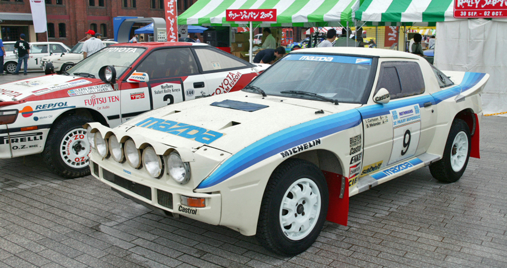 Mazda RX-7 Gr.B at The Spirit of Rally 2005.